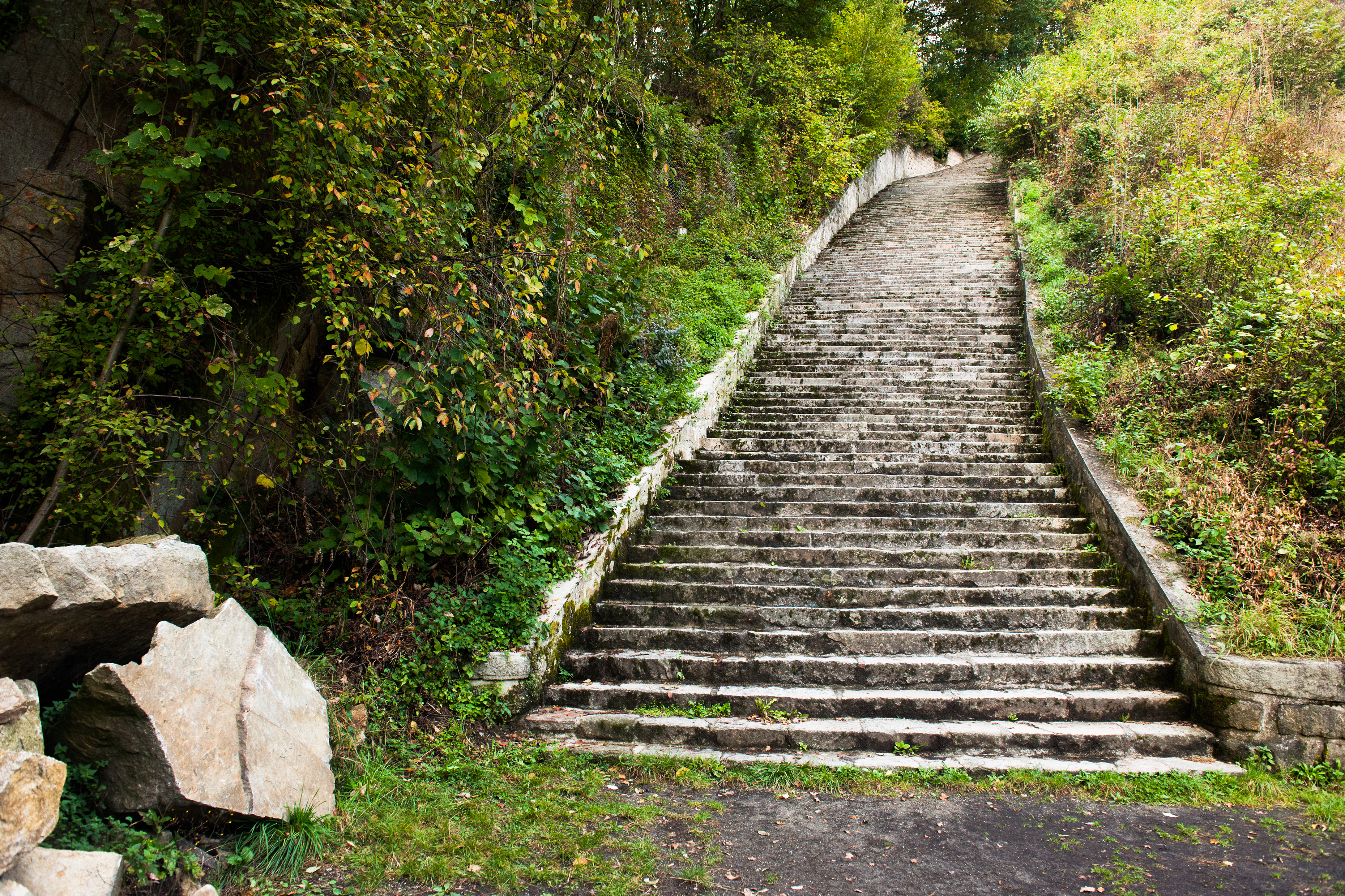 Mauthausen Memorial Dieses Bild wurde anlässlich des österreichischen Tags des Denkmals 2016 in Oberösterreich eingereicht.